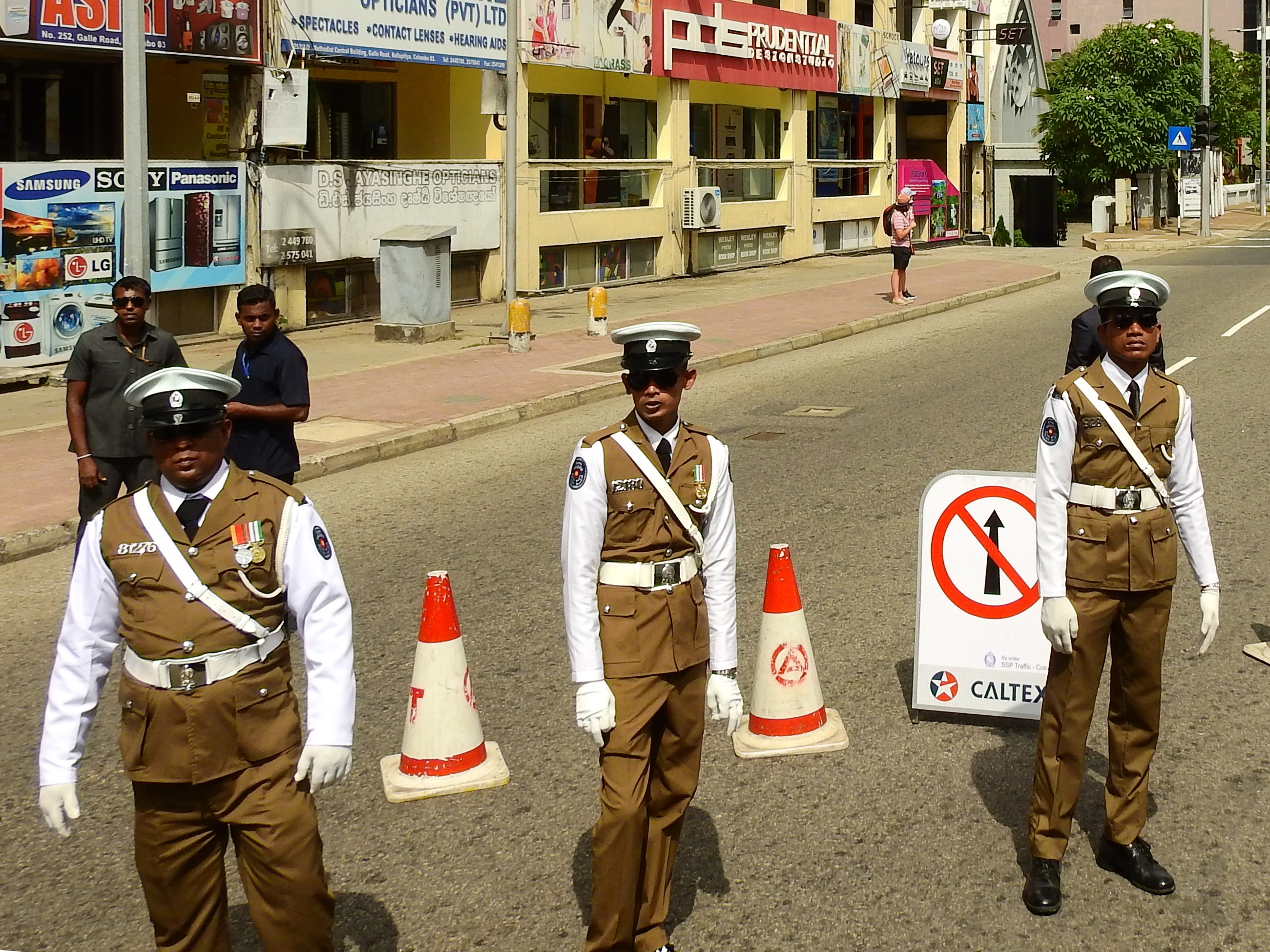 A 2-hour photowalk was conducted during the Independence Day of Sri Lanka (4 February 2019), covering the environment and events near the annual parade held at Galle Face Green. The project mostly covered the Navy and Coast Guard vessels, Air Force aircrafts, and civilian life during that morning.